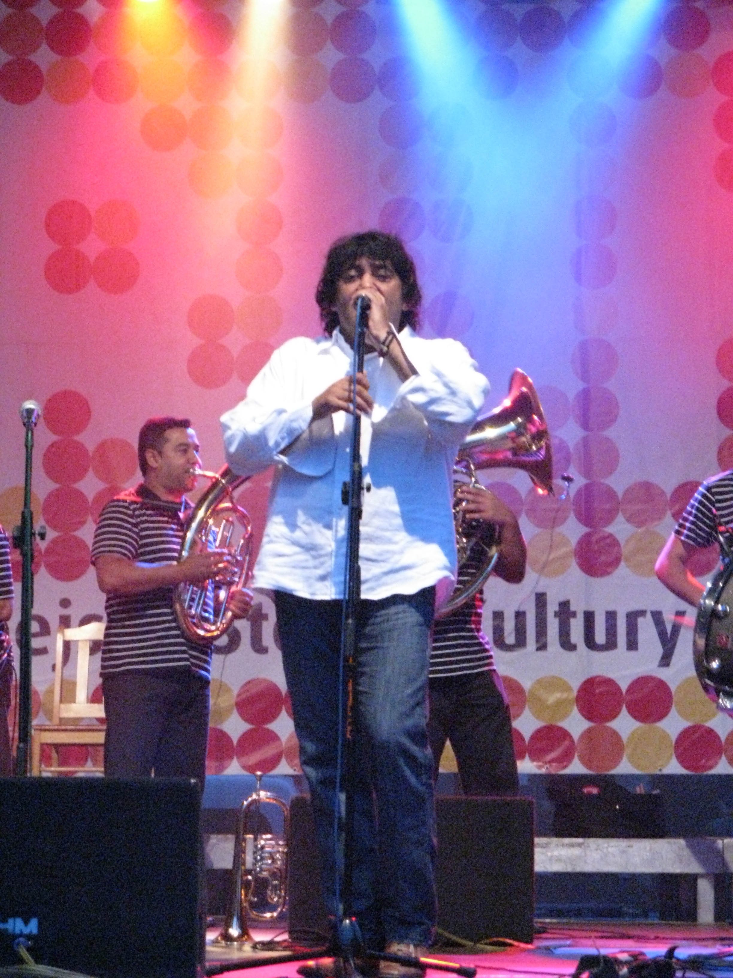 Boban Marković on conceert in Toruń